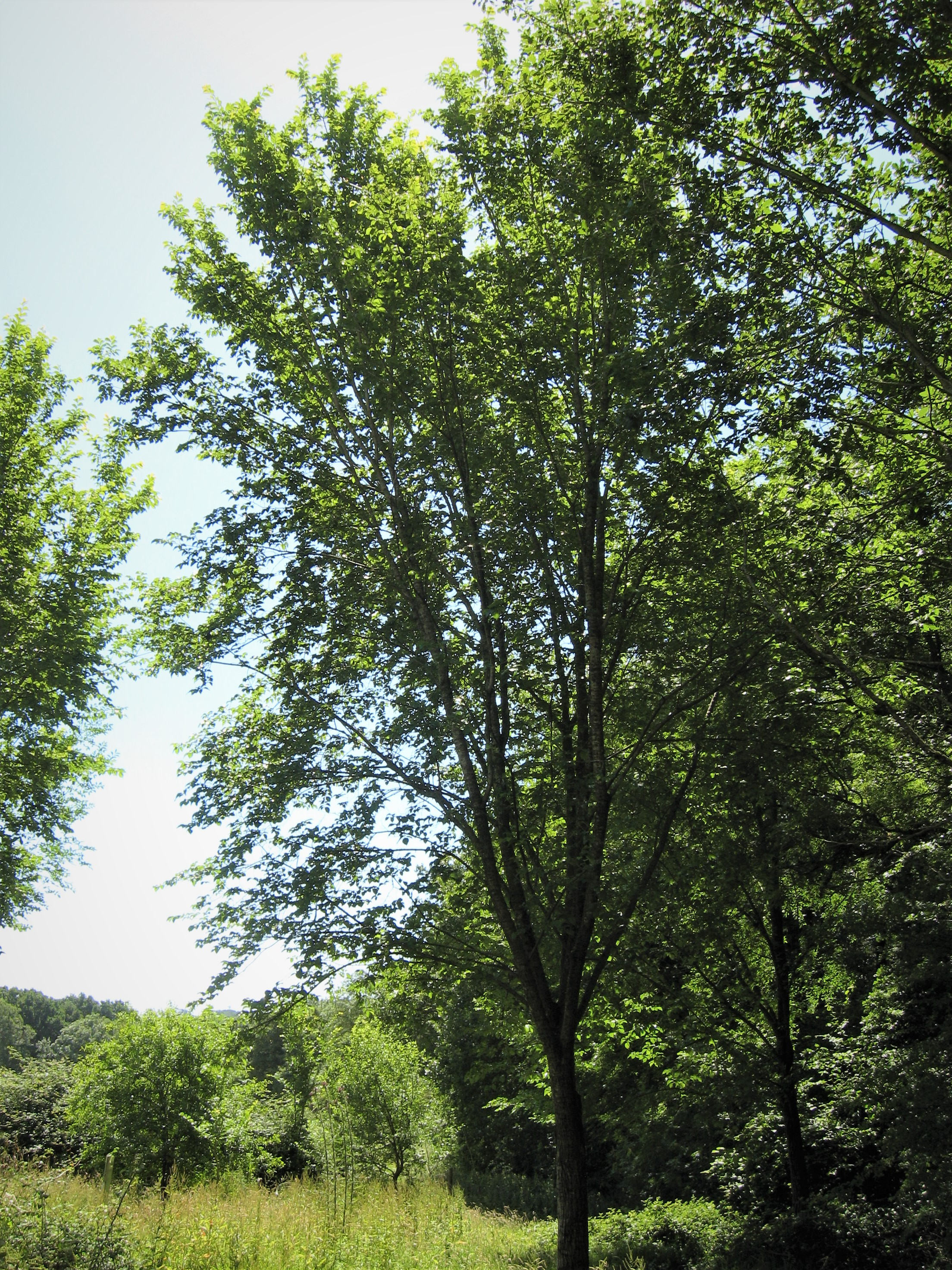 Photo of 20-year-old Ulmus 'Nanguen' = LUTECE at Great Fontley, UK